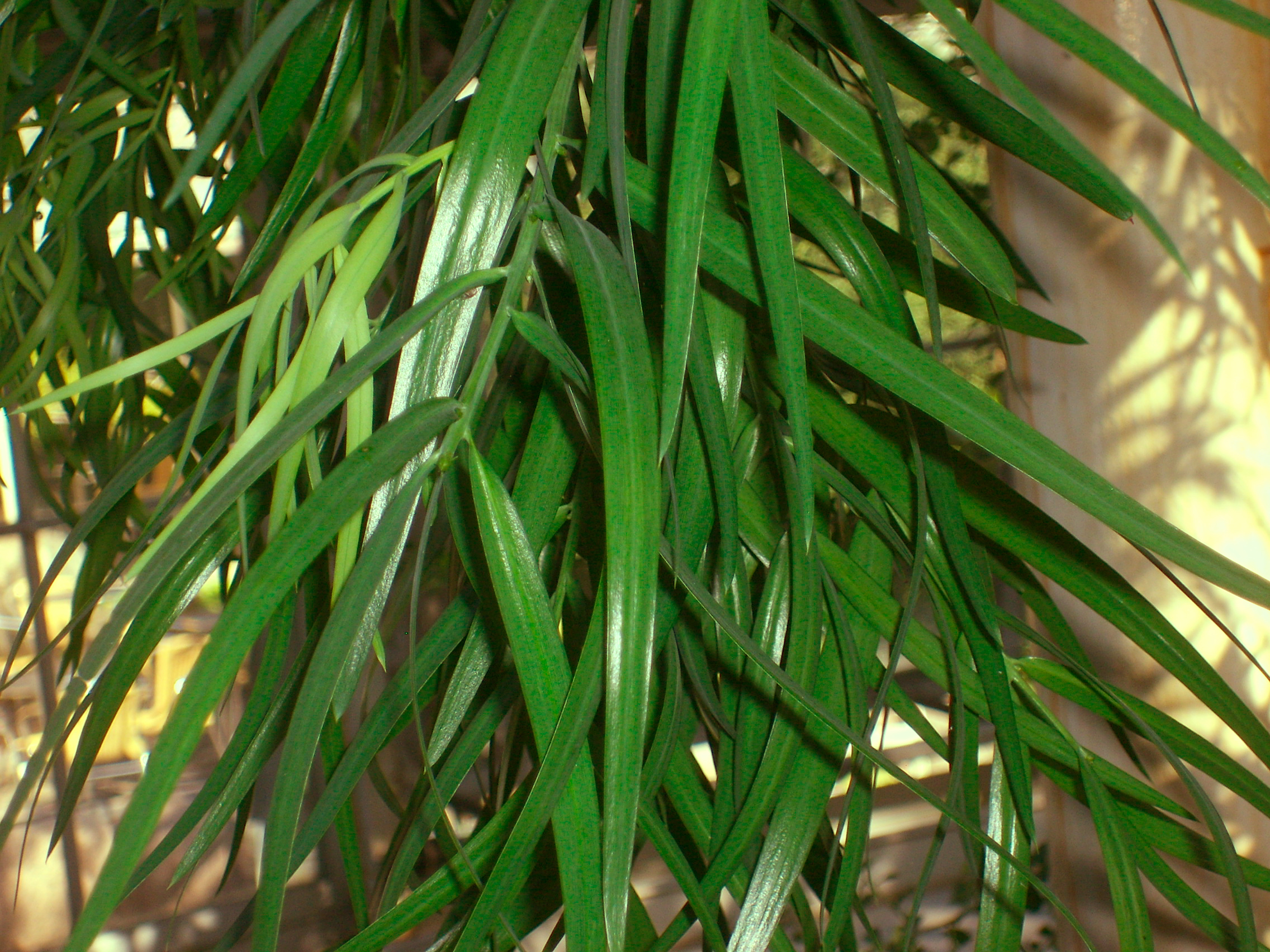 Copanhagen Botanical Garden, Decussocarpus mannii, foliage